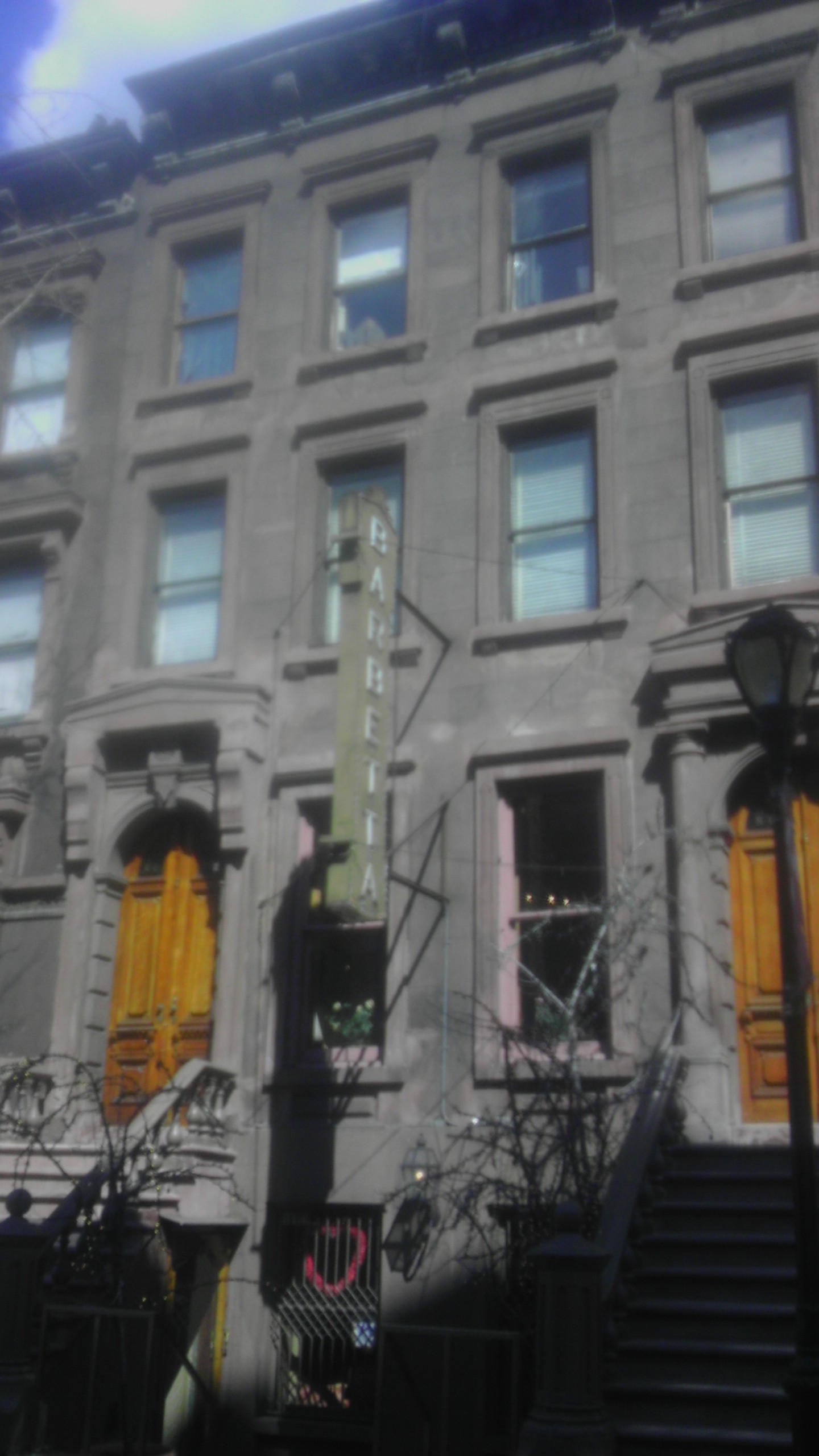 Looking north at new Barbetta restaurant. EXIF location is off by hundreds of meters northwest.